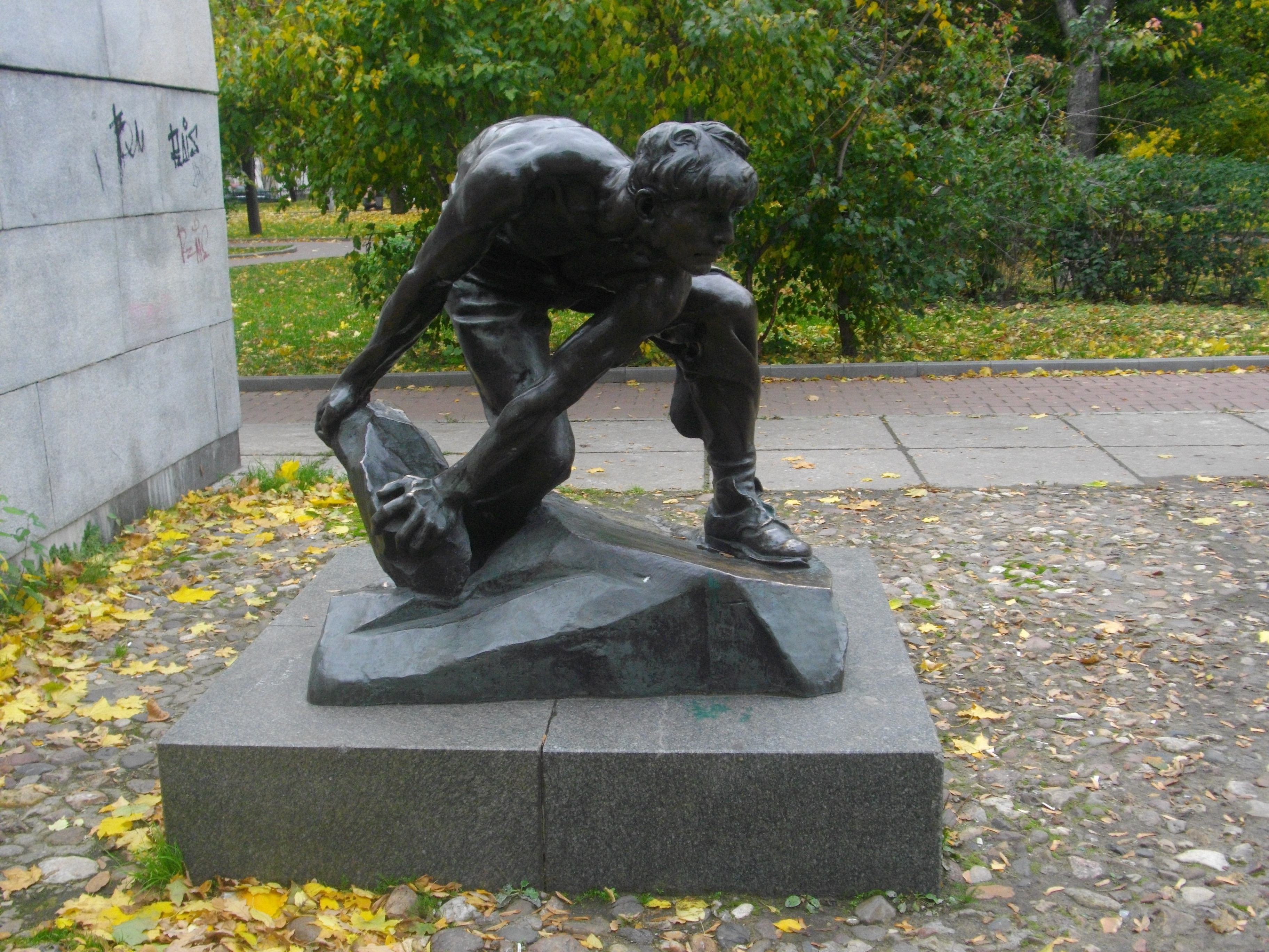 Sculpture "Stone as a weapon of the proletariat" by Ivan Shadr (1927)